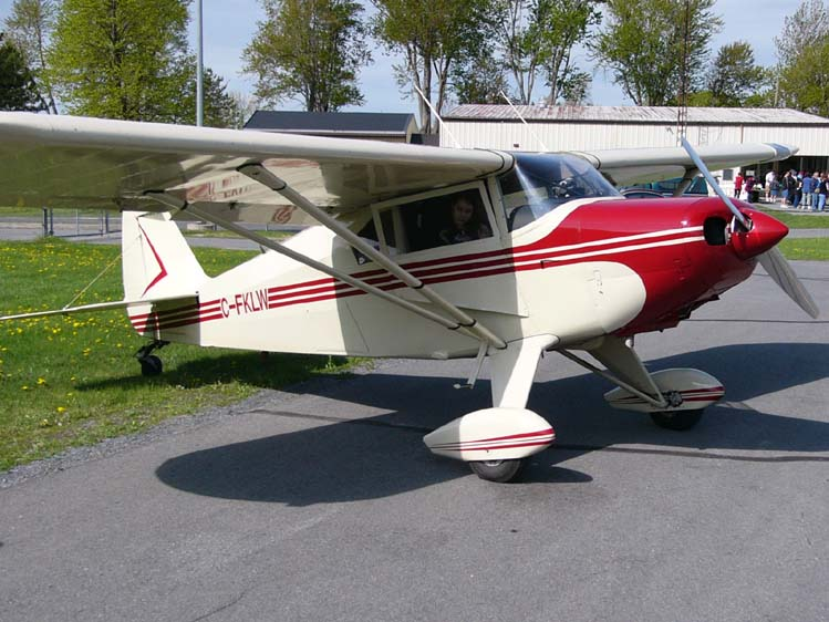 A Piper PA-22-150 Tri-Pacer (C-FKLW) that was converted to conventional landing gear, rendering it very similar to a Piper PA-20 Pacer. These conversions are sometimes referred to under the type designation PA-22/20.